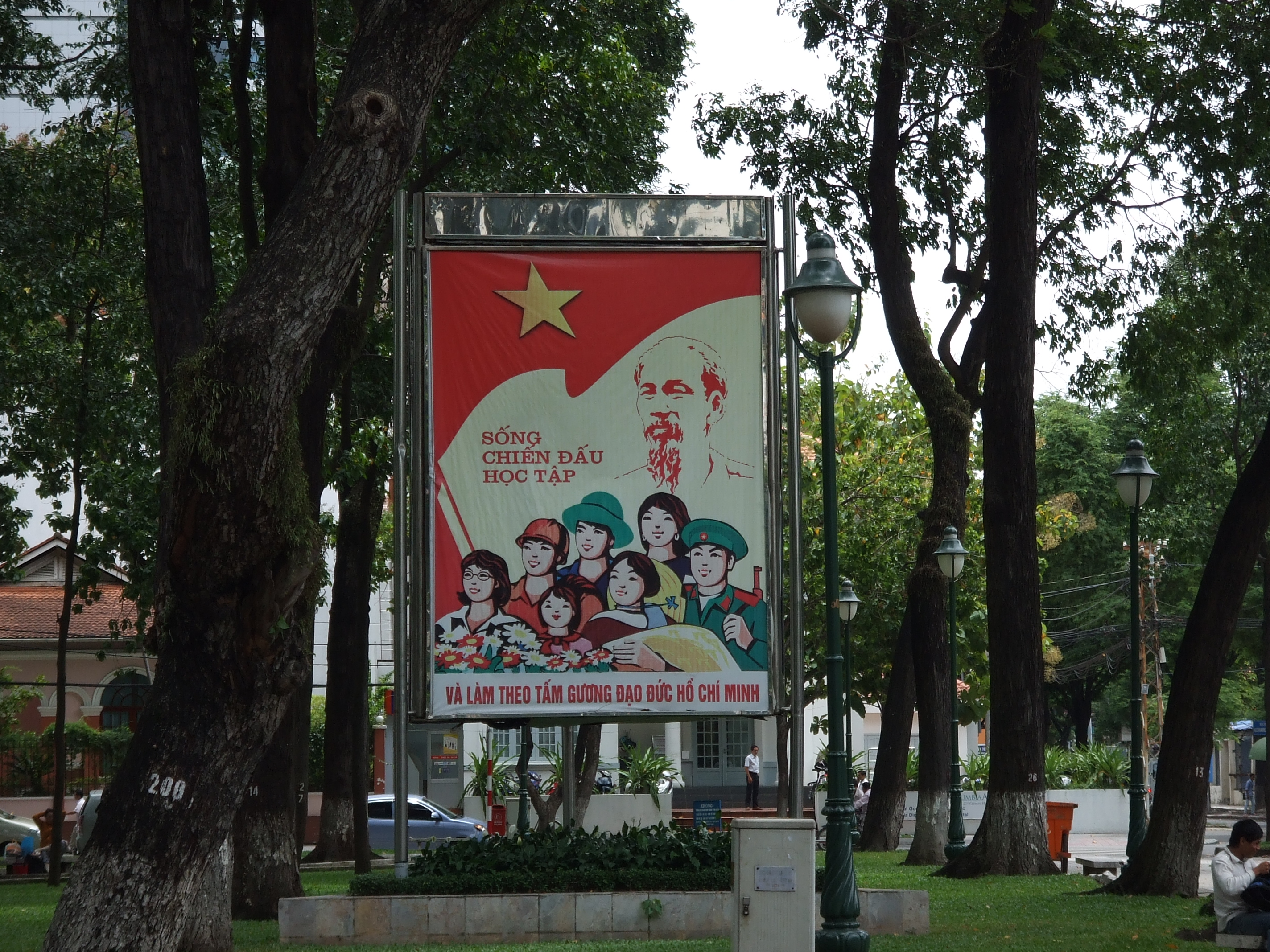 A Propaganda banner in Ho Chi Minh City